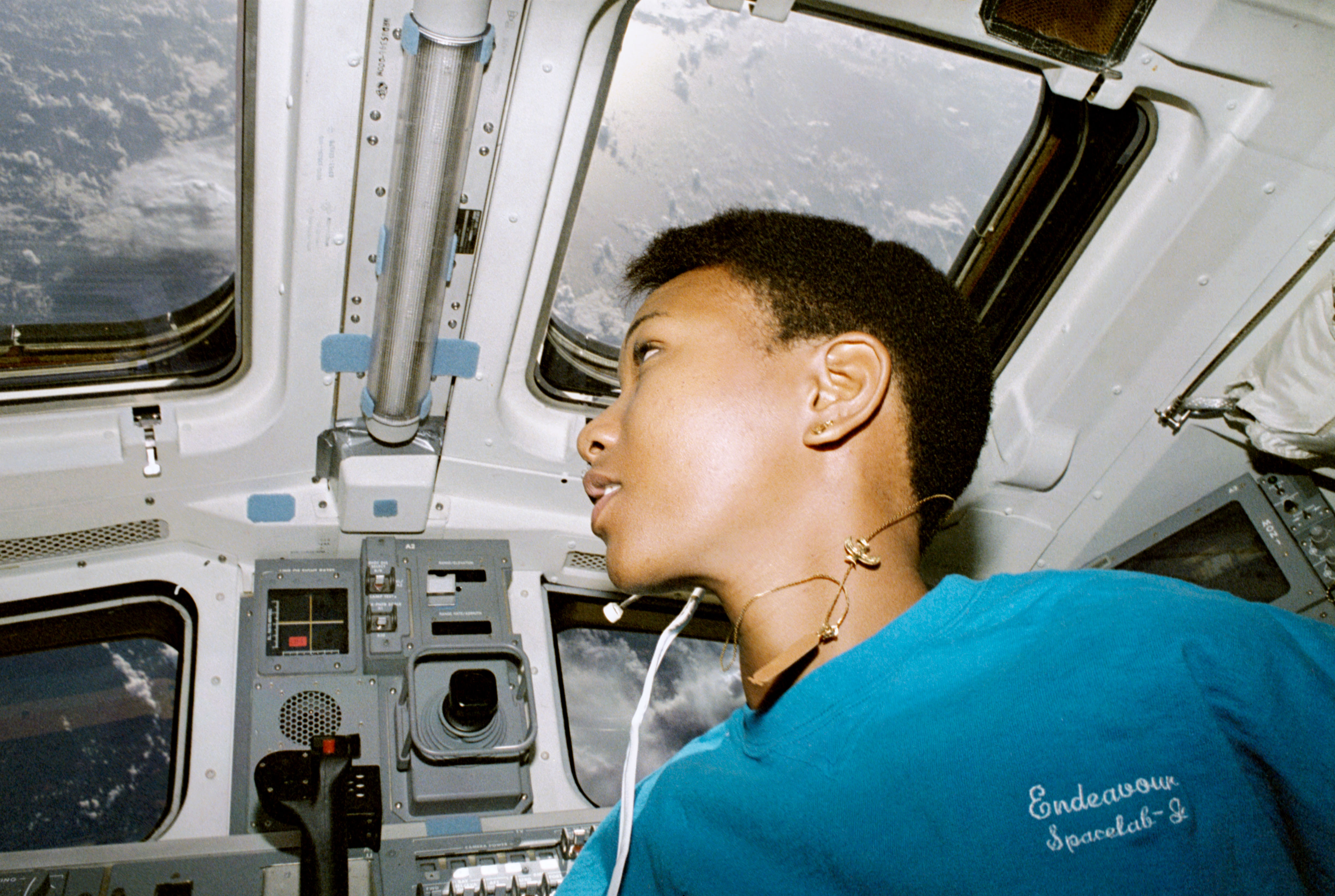 Mission Specialist Mae Jemison at aft flight deck ports (001-003) on Space Shuttle mission STS-47 in 1992. She was the first woman of color in space. Image #: sts047-217-002; Dated: November 24, 1998 (photo taken in 1992)